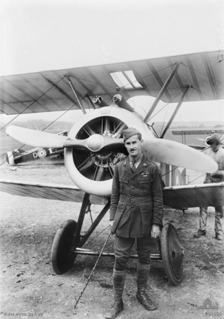 Portrait of Major Wilfred Ashton McCloughry MC, Officer Commanding, No. 4 Squadron, Australian Flying Corps (AFC)